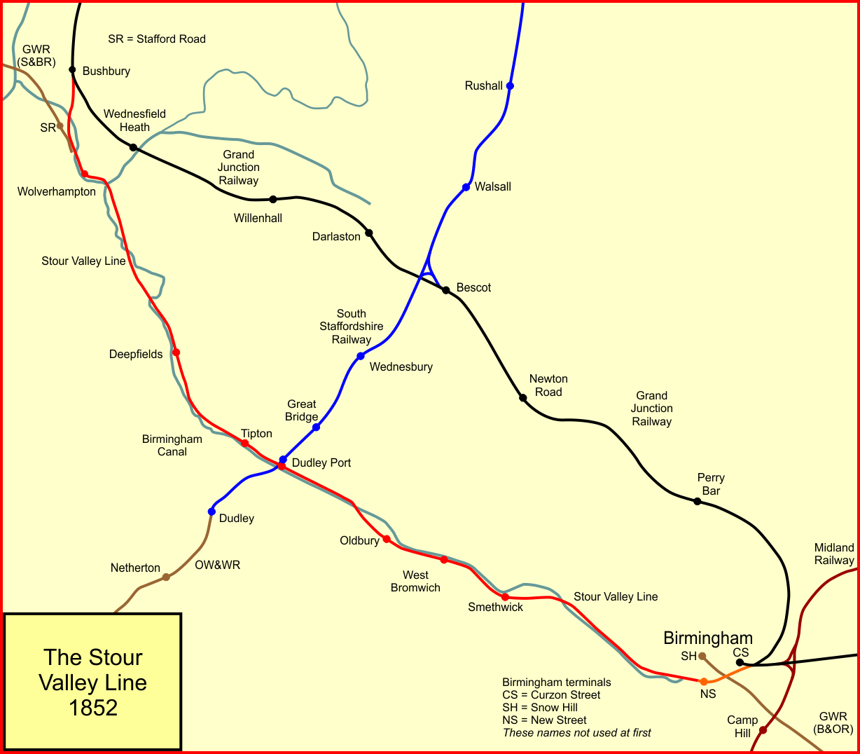 System map of the Stour Valley Railway Line between Birmingham and Wolverhampton, England, on opening in 1852